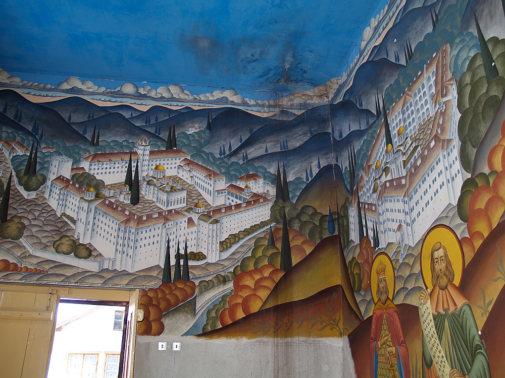 Frescoes of Germanski Monastery